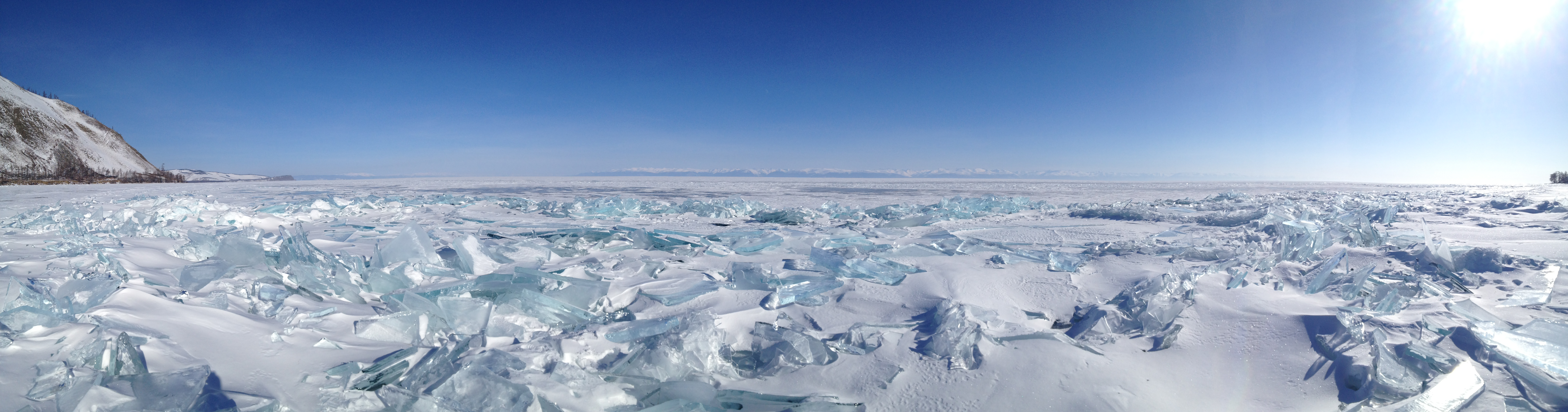 Pavel Gurenchuk 2015